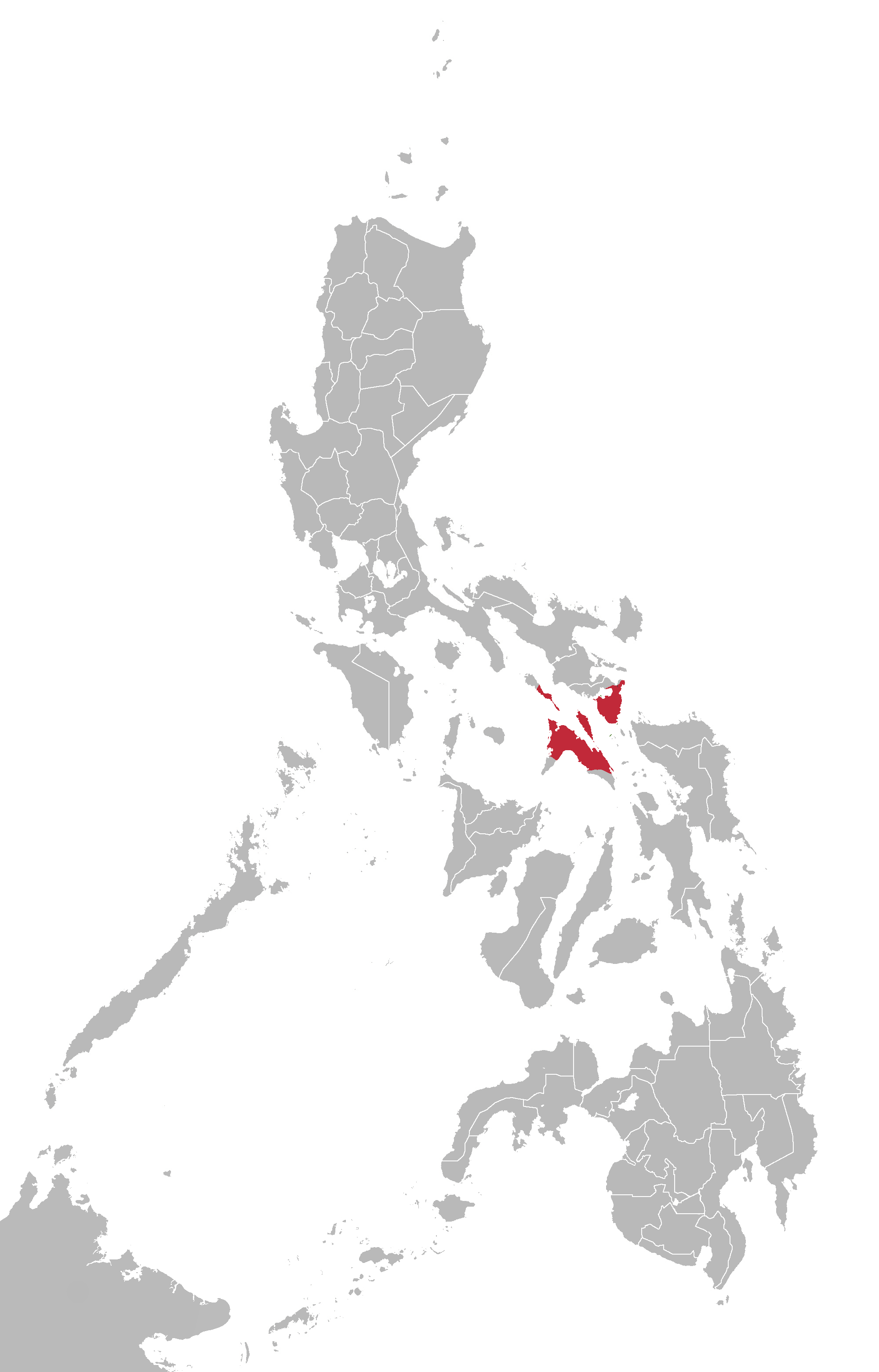 Geographic extent of Bisakol languages based on Ethnologue map